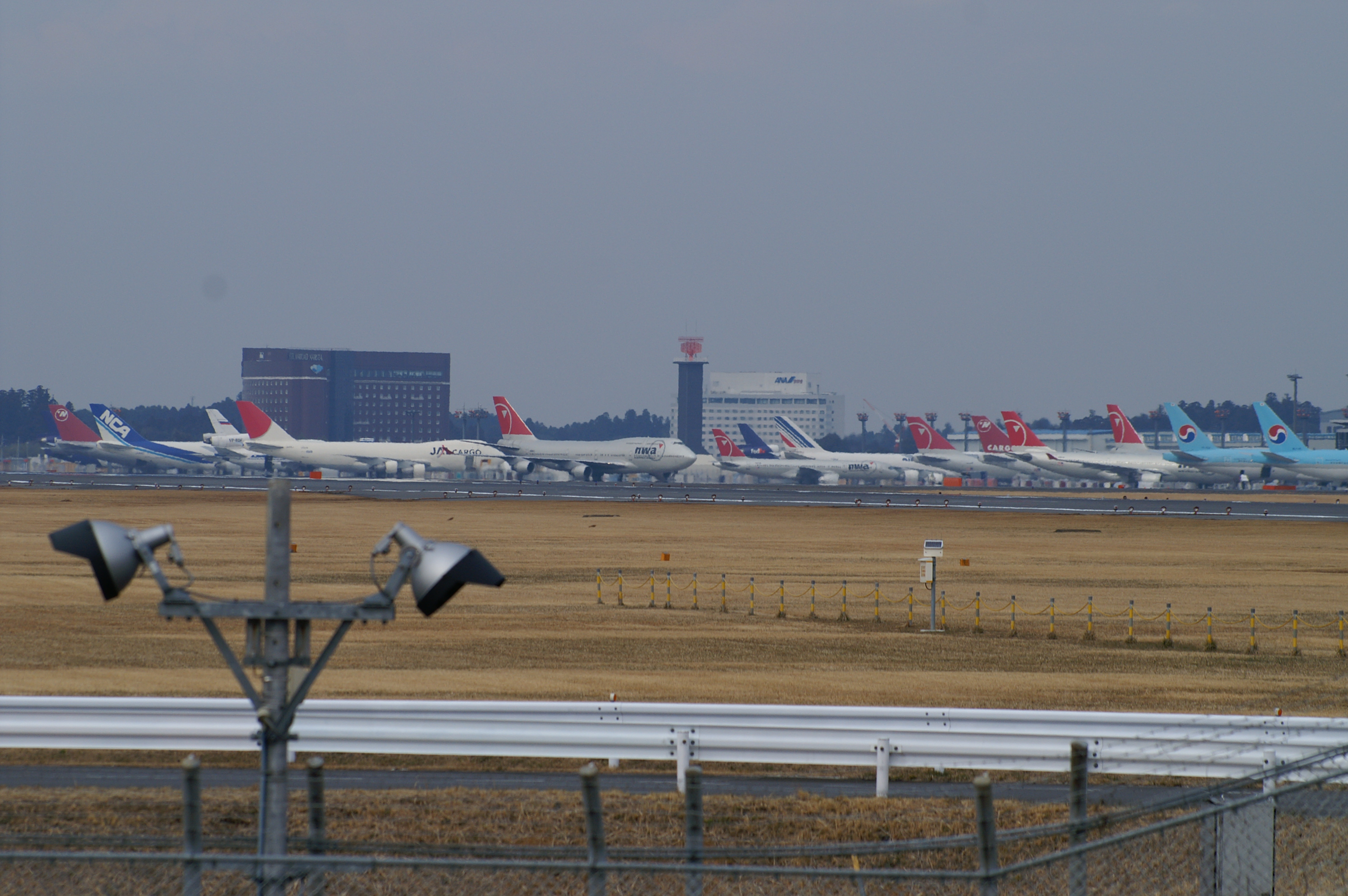 Operations at narita International Airport, showing the number of airlines that fly to the airport. (2007/01/28 Narita International Airport, Chiba, JAPAN)